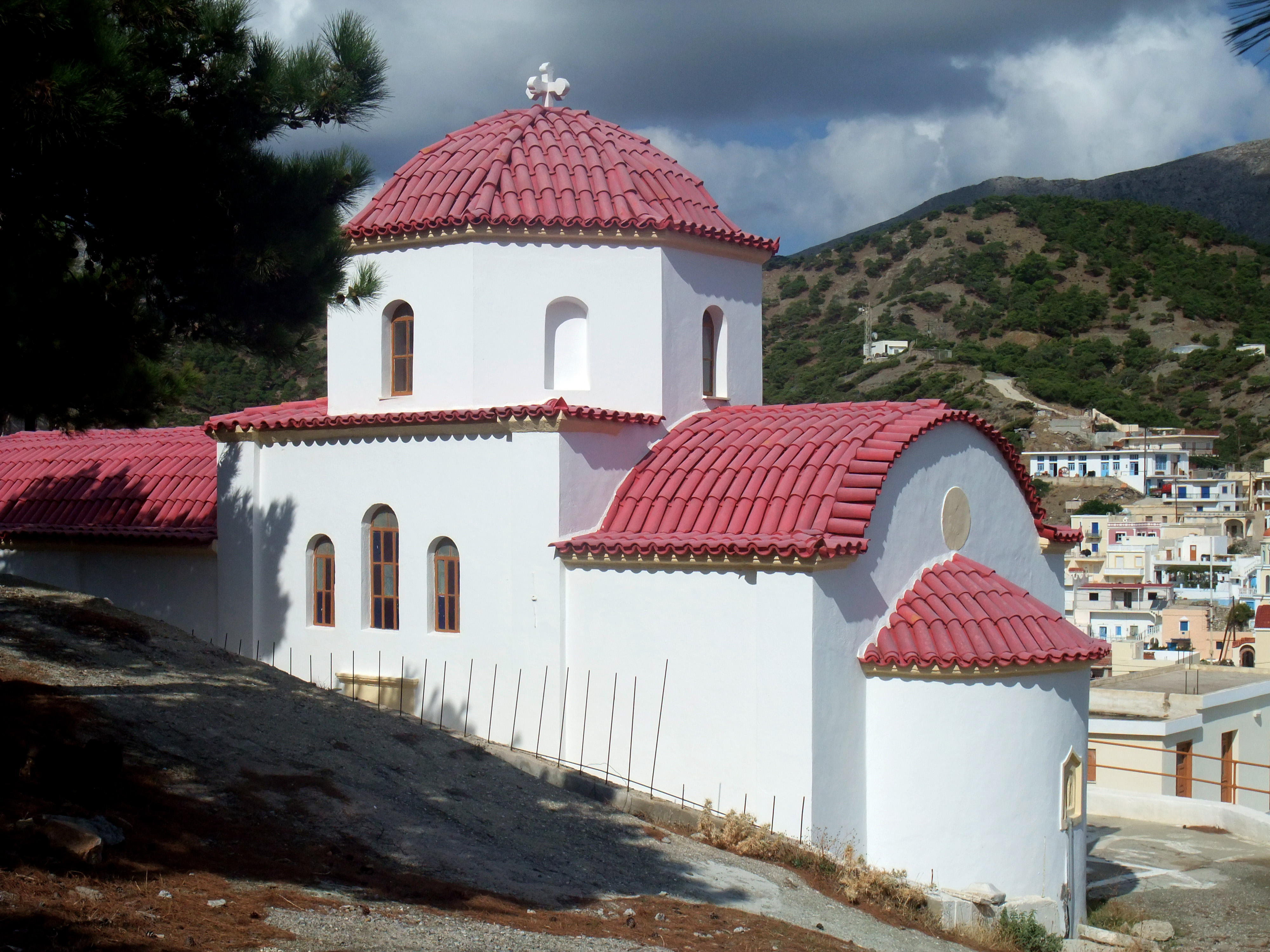 Agios Nikolas chapel (exterior view, back view) in Diafáni, Karpathos, Greek Dodecanese islands